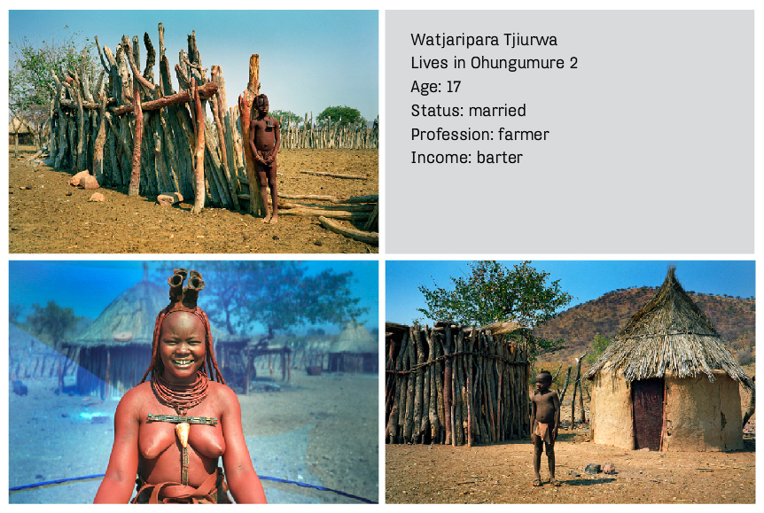 Namibië, 2004 (picture from the project “The most beautiful people in the world”)